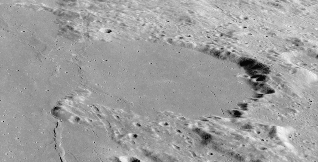 Le Monnier, on the moon.